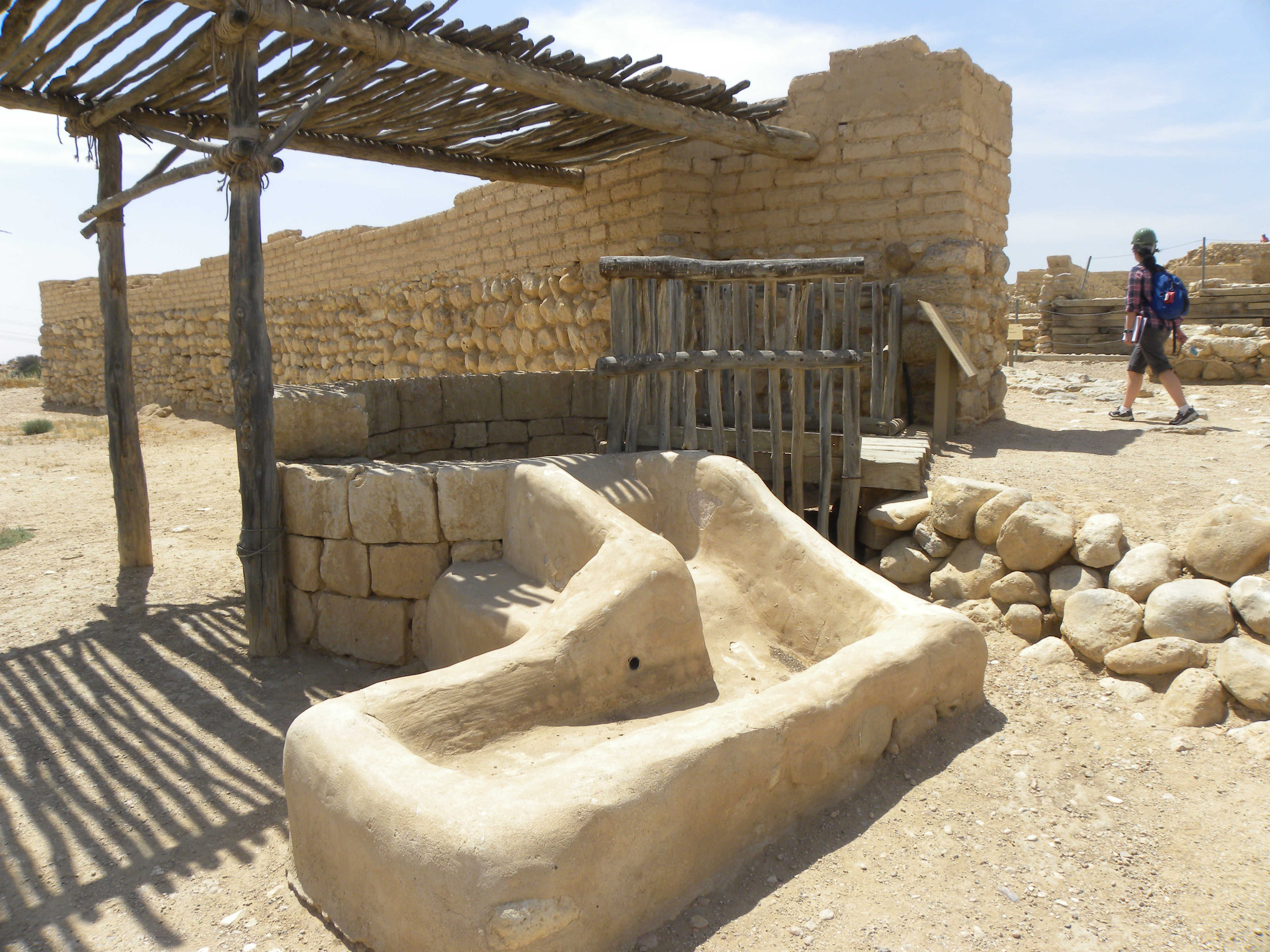 This well dates as far back as the 12th-11th centuries BCE and is often called "Abraham's well," connecting it with the biblical account of the oath sworn between Abraham and Abimelech in Genesis 21:27-32 (cf. Gen 26:23, 33). The well is deep enough that to have provided a reliable source of water year-round, a vital resource at this site at the edge of the dry Negev. The plastered watering trough for animals is a modern reconstruction.